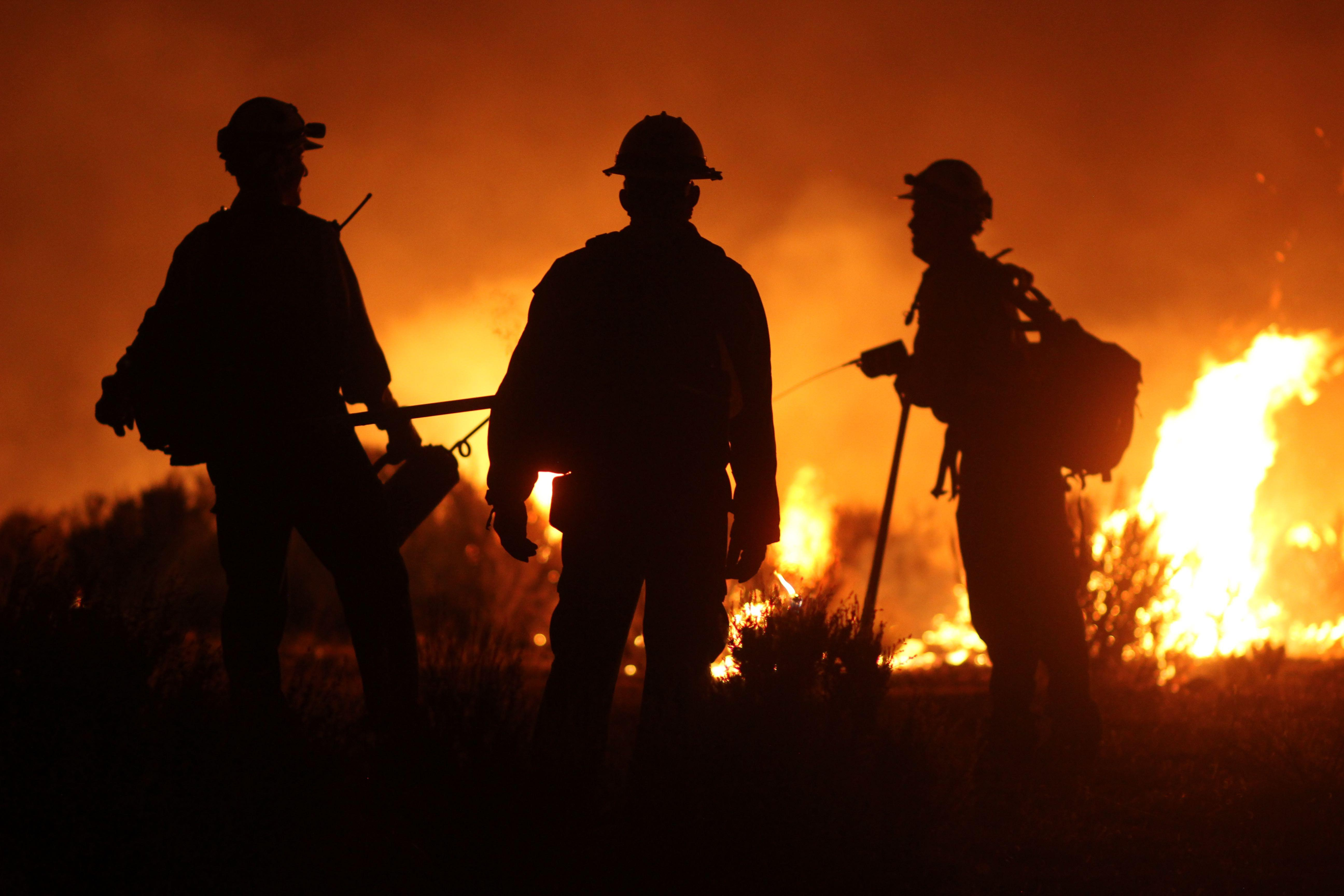 McCall Smokejumpers work nightshift operations